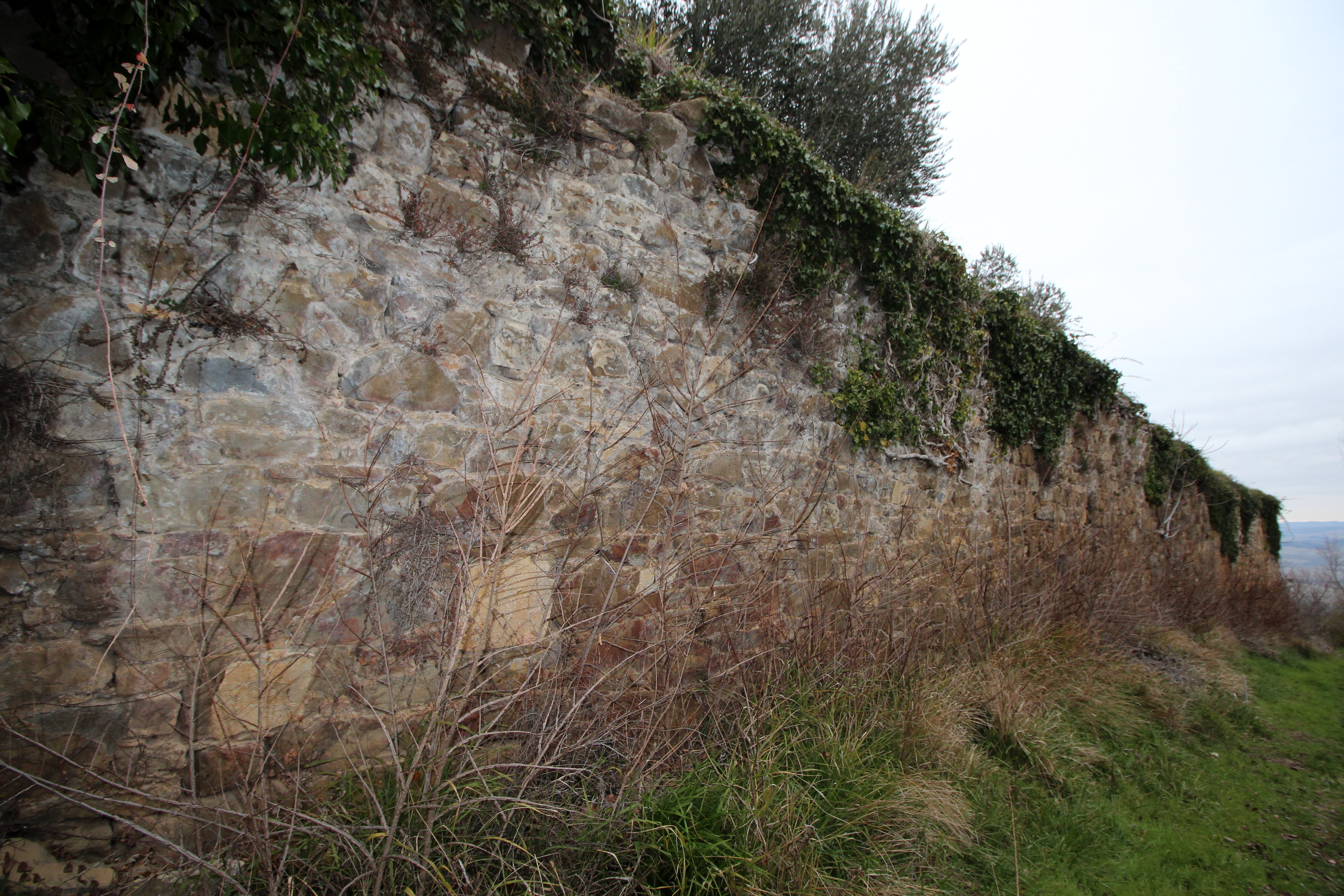 Defensive Walls of Montalcino, Province of Siena, Tuscany, Italy